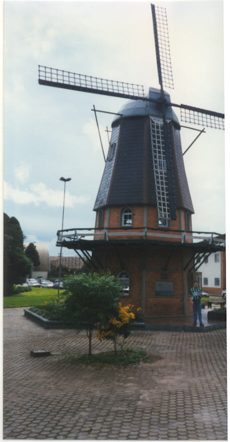 Dutch windmill in Carambeí, Brasil